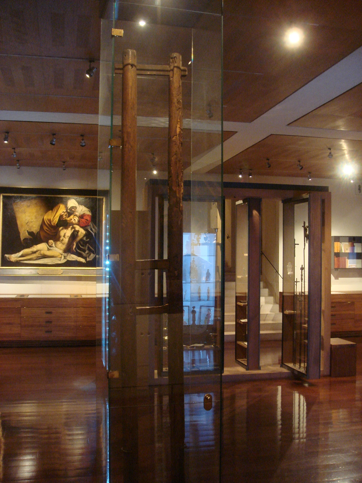 Martyrs' Room at the Paris Foreign Missions Society. The ladder-like device in the case is the cangue used on Pierre Dumoulin-Borie while in captivity.